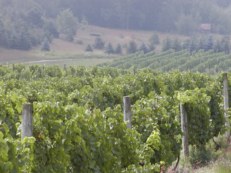 Image of a Chardonnay vineyard in Michigan. (Chateau Fontaine in the Leelanau Peninsula AVA)